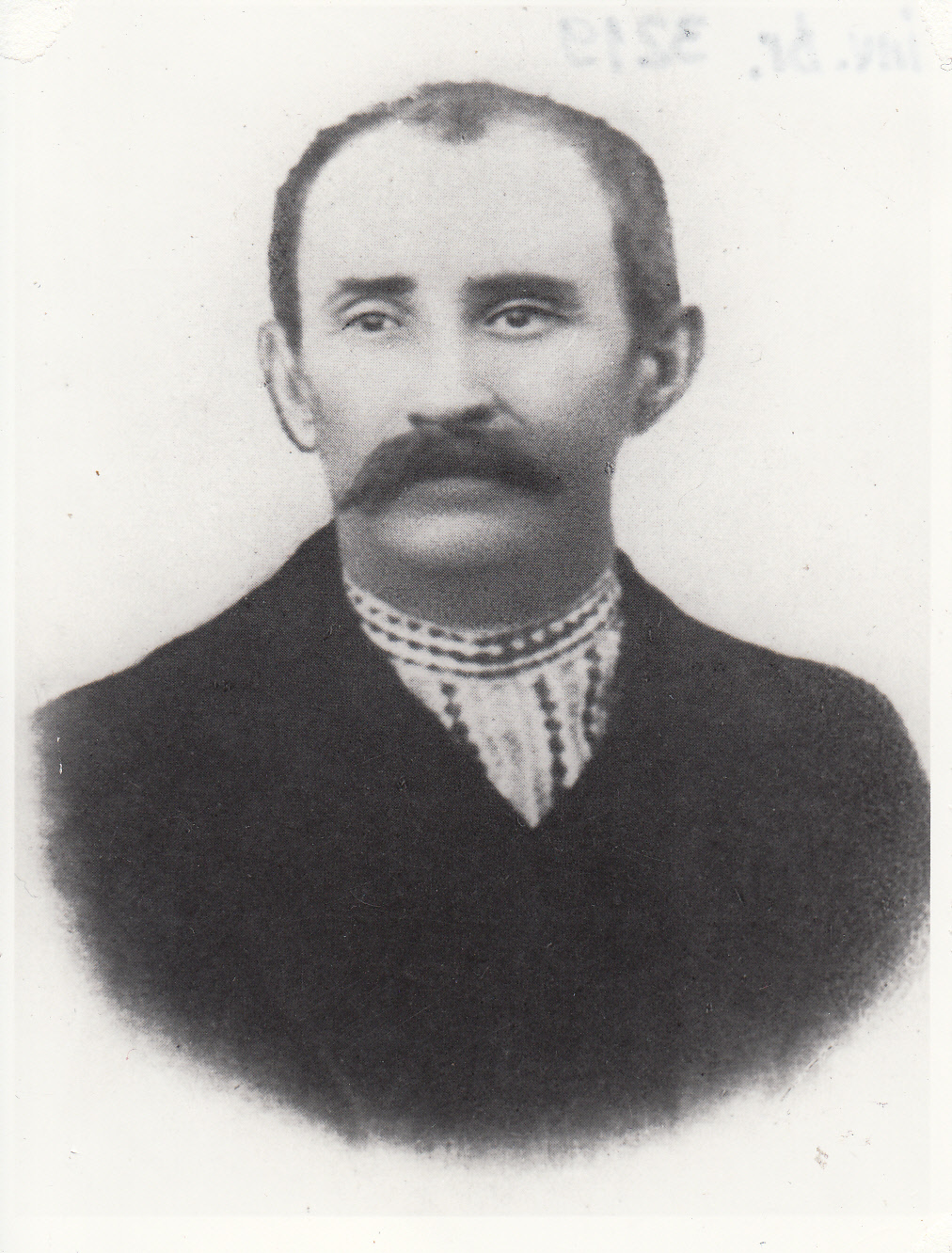 A photograph of Albert Martiš (1855-1918), Vojvodinian Slovak national activist, writer and publicist. Inventory number 3219. Srpski (latinica): Fotografija Alberta Marćiša (1855-1918), slovačkog nacionalnog radnika, pisca i publicistе. Inventarski broj 3219.